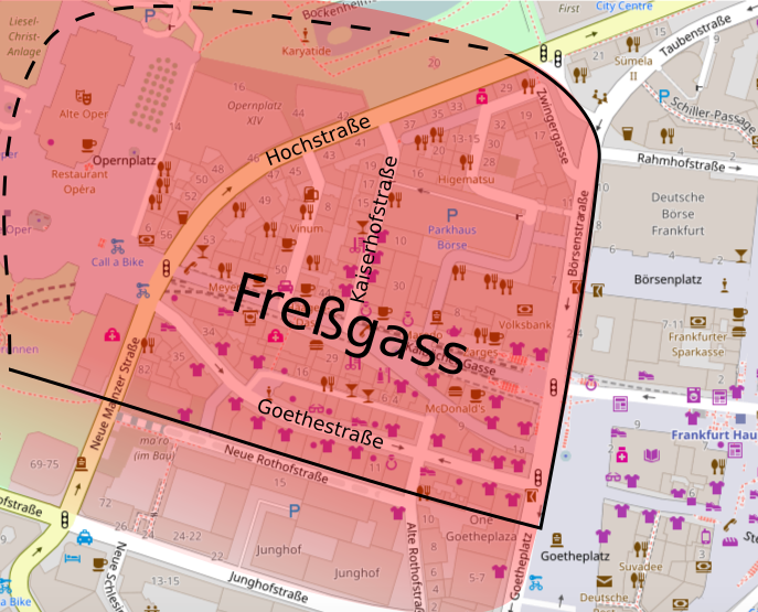 The Frankfurt Opera Quarter (Opernviertel / Opernquartier) This map may be incomplete, and may contain errors. Don't rely solely on it for navigation.